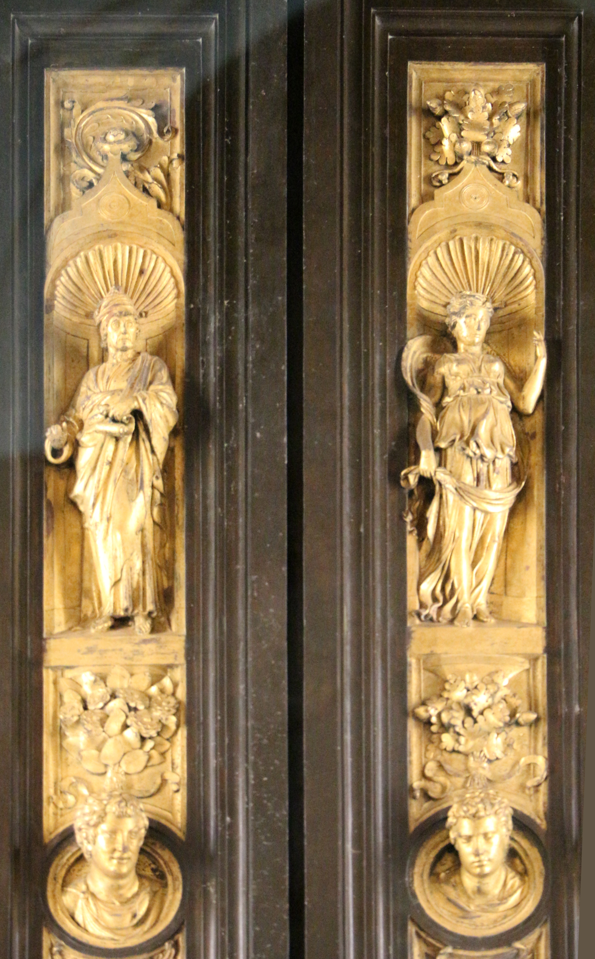 The Gates of Paradise - Reliefs